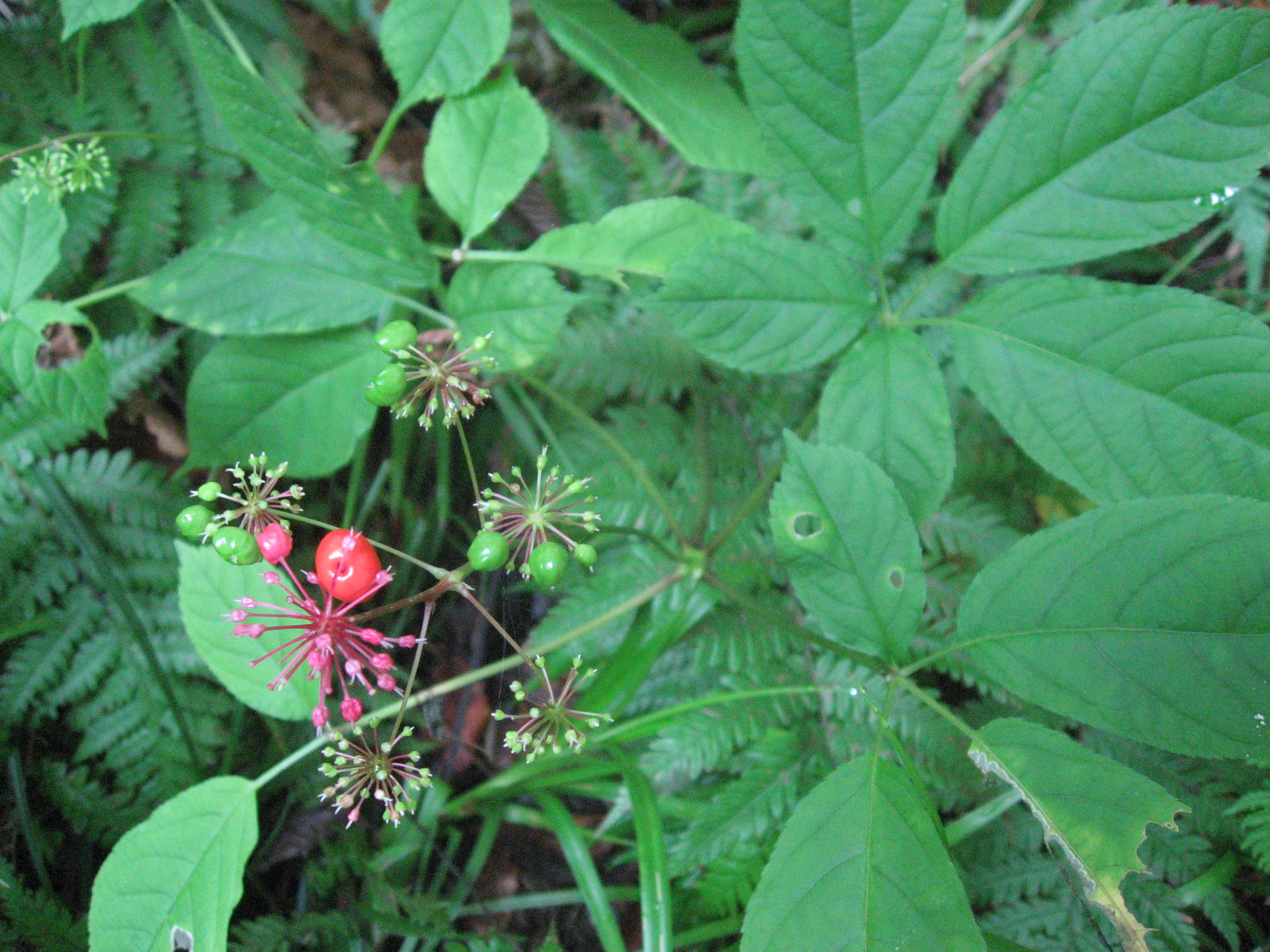 Panax japonicus, Kaetsu area, Niigata pref., Japan